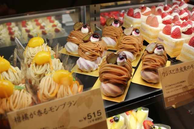 Mont Blancs on display at Mitsukoshi department store bakery